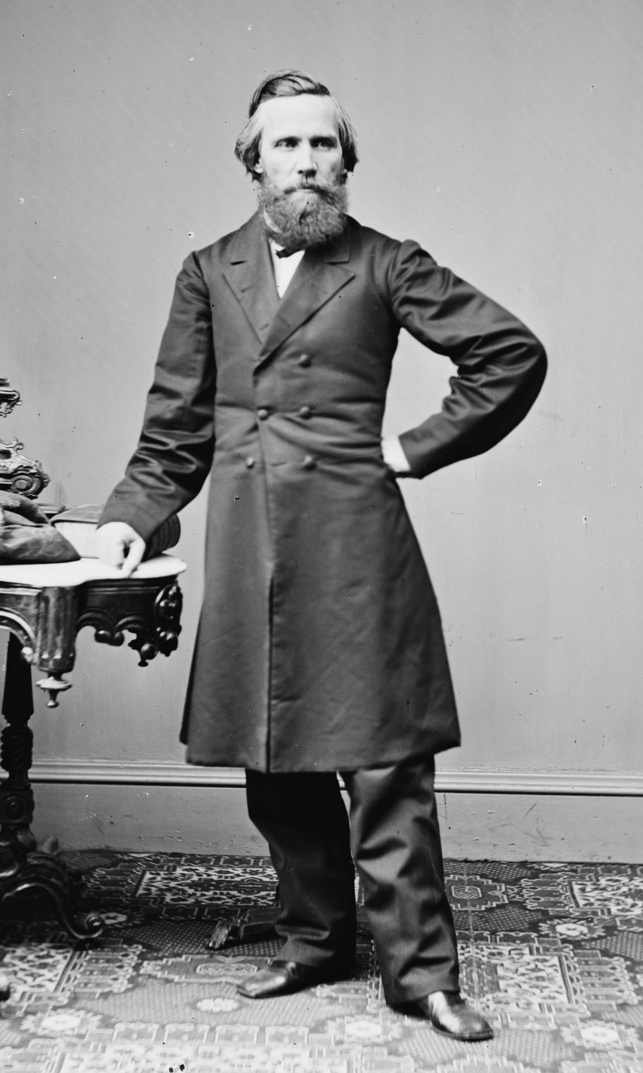 Joseph W. McClurg. Library of Congress description: "Hon. Joseph W. McClurg"